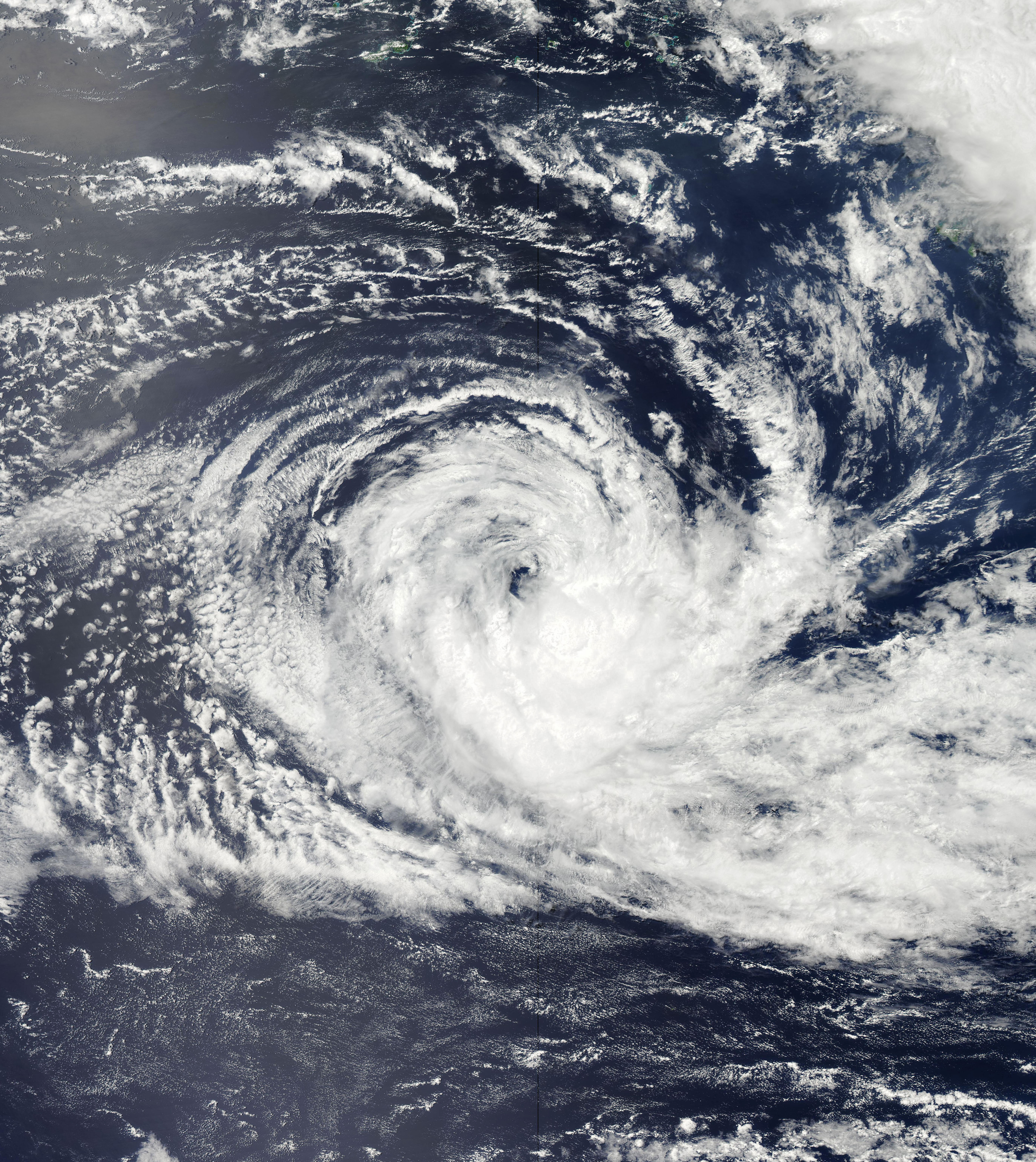 Tropical Storm Jasmine on February 12, 2012